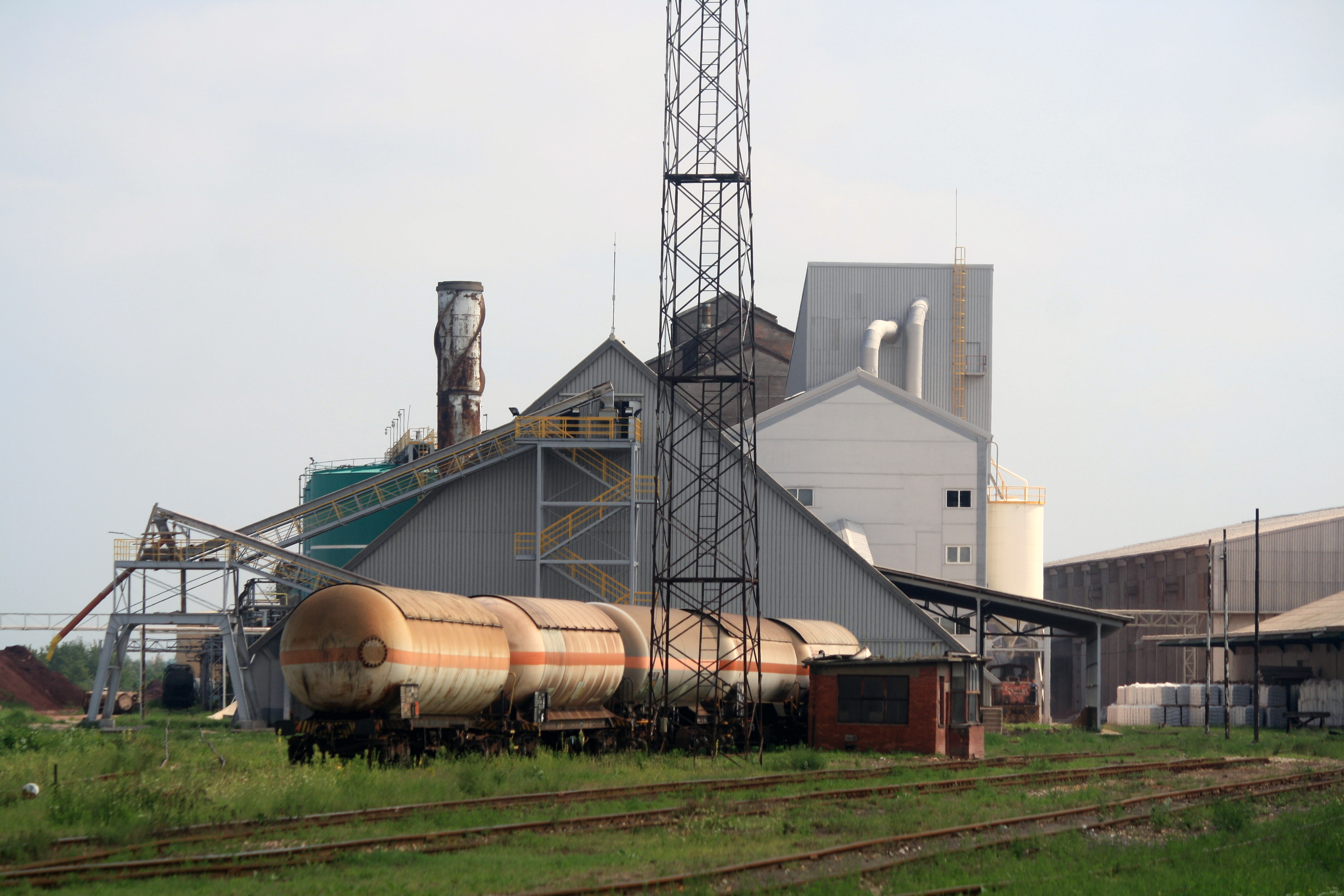 Zorka chemical industries in Šabac.